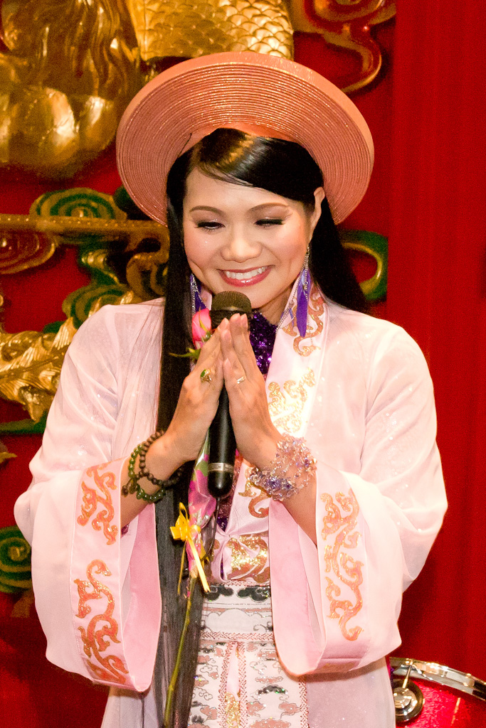 Vietnamese singer Ngoc Huyen (Fundrasing help to build a temple Vien An)